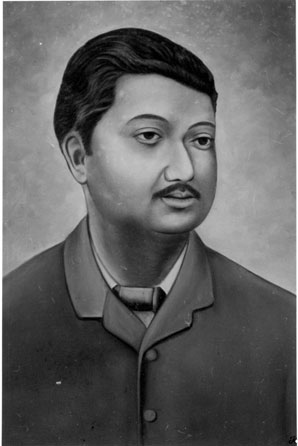 Ananda Ram Barua (Assamese: আনন্দৰাম বৰুৱা; 1850–1889) was great scholar in Sanskrit. He was the first civilian (I.C.S) from Assam, first graduate from Assam and an eminent lawyer.